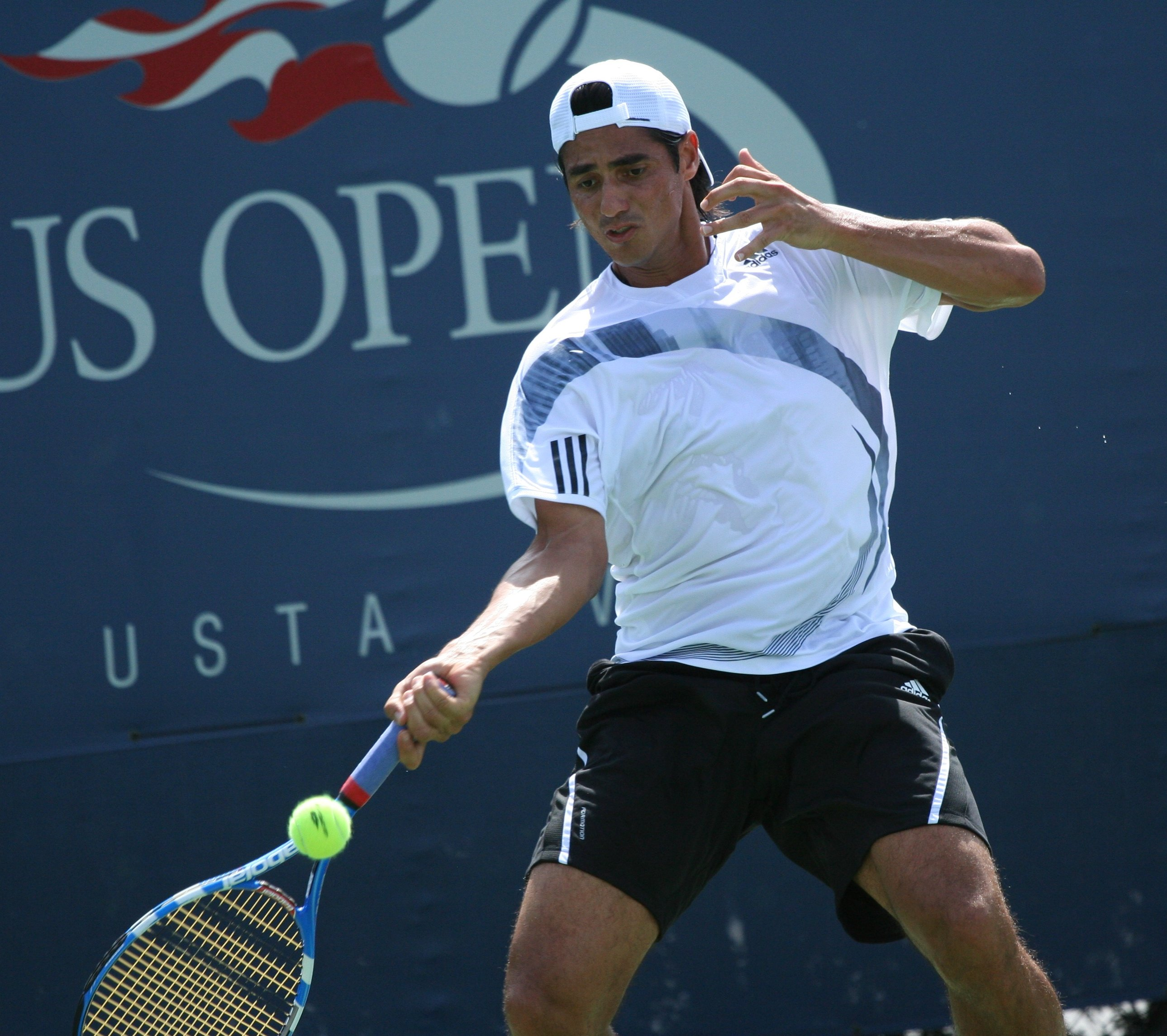 U.S. Open Friday, Sept. 4, 2009